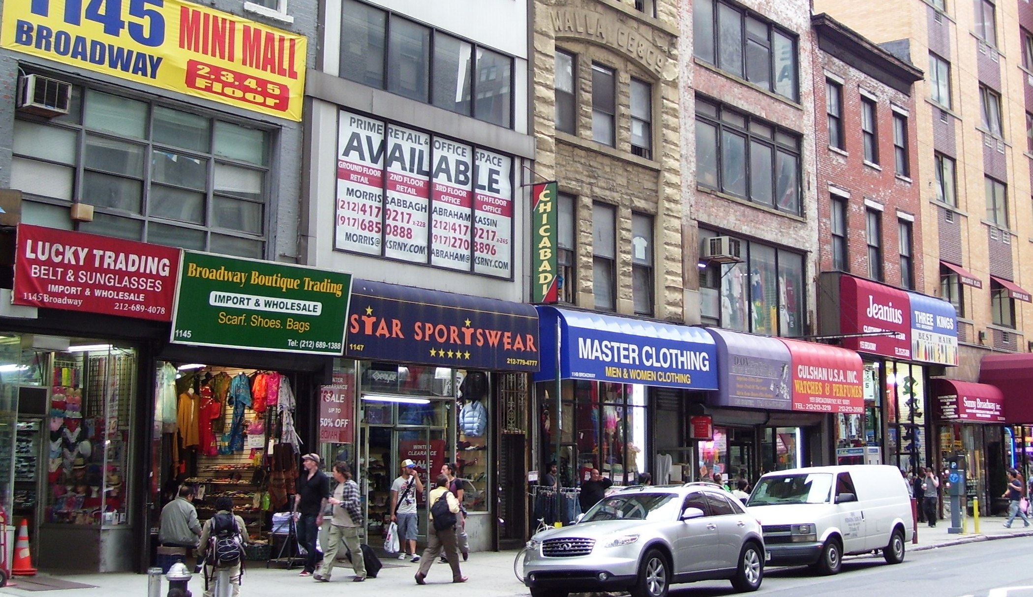 The west side of the block of Broadway between 26th and 27th Streets